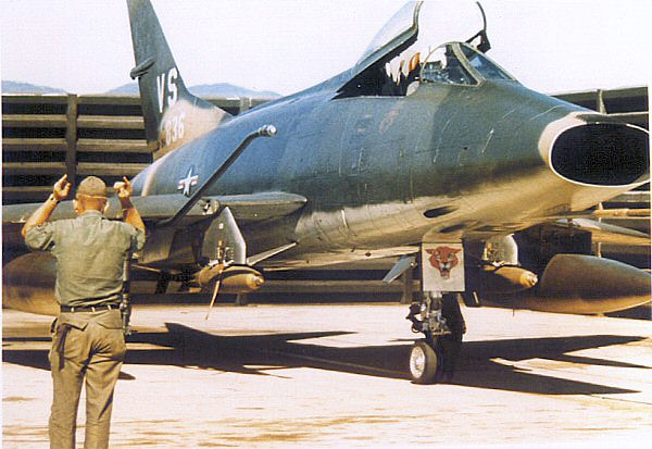 A U.S. Air Force North American F-100C-15-NA Super Sabre (s/n 54-1836) of the 120th Tactical Fighter Squadron, Colorado Air National Guard, at Phan Rang Air Base, South Vietnam, in 1968. 54-1836 was retired to the MASDC on 30 November 1971.